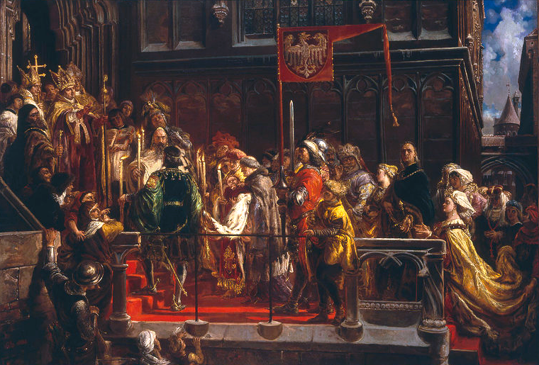 Baptism of Władysław III of Poland 18 02 1425